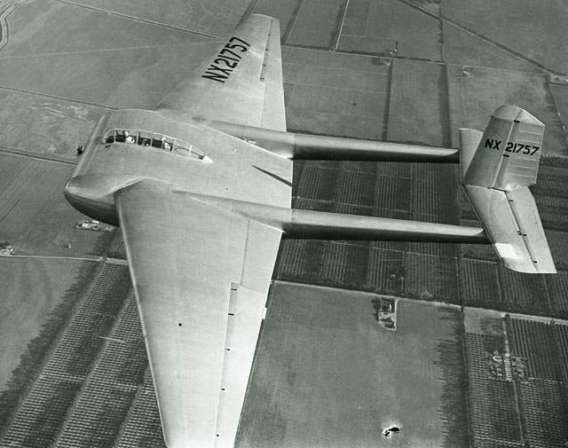 High right side aerial view of General Airborne XCG-16 glider (r/n NX21757) in flight, caption on photo reverse, 'Oxnard, California XCG-16, 1944, Pilot Major R.R. Shoop, Co-Pilot Mr. Howard Morrison'. (Text taken from File:2000-3085.jpg)